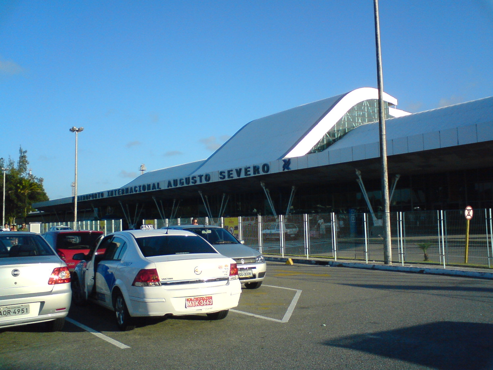 Airport Augusto Severo, Natal - RN, Brazil